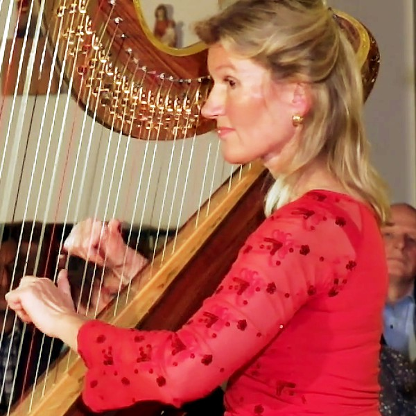 Ulla van Daelen in Dezember 2015 at the Abtei Maria Laach, Germany (HD video still, cutout makes low resolution)